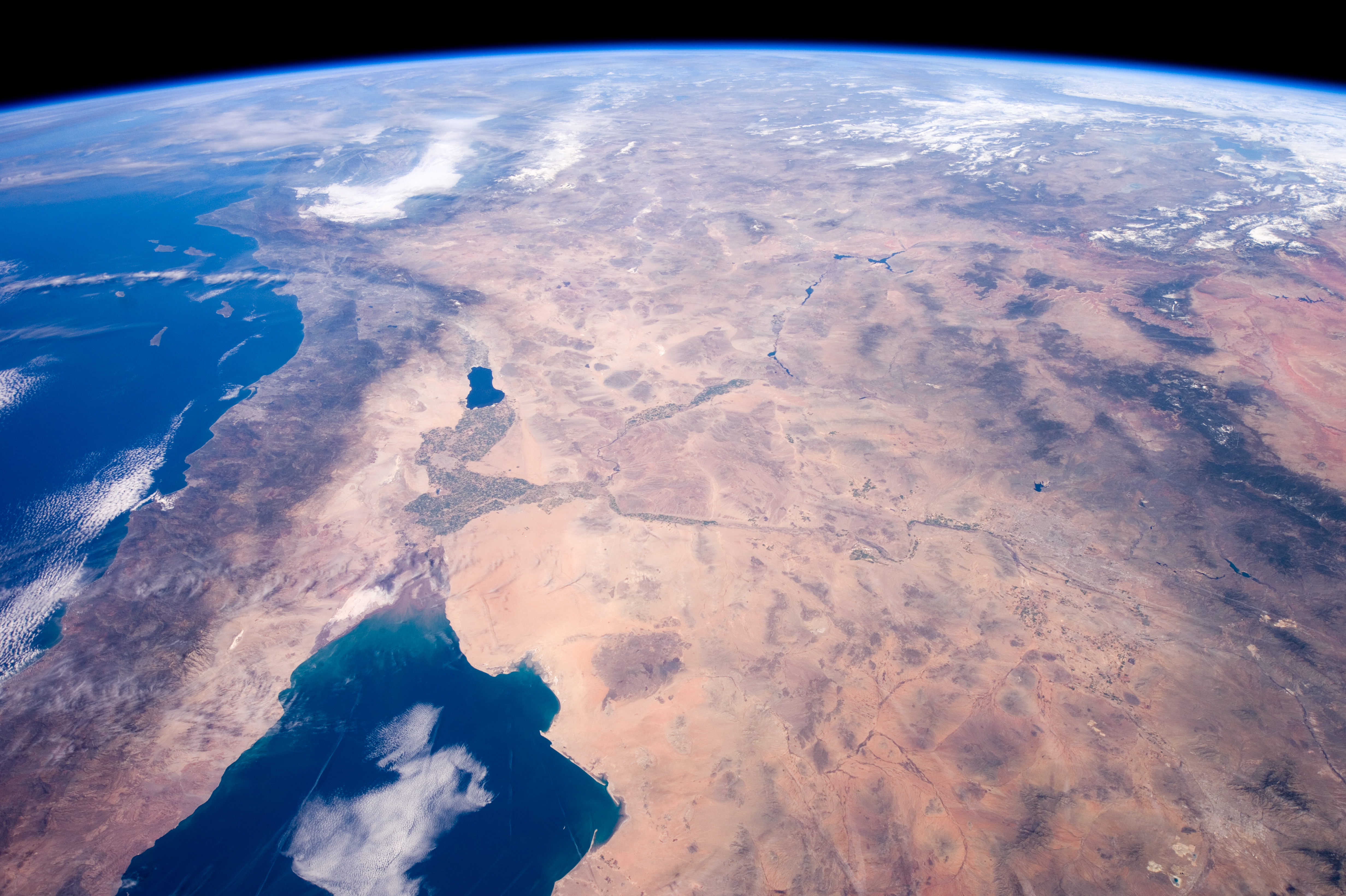 NASA astronaut Tim Kopra tweeted this image with the comment: "Flying over @Mexico @California and #Arizona. #Explore"